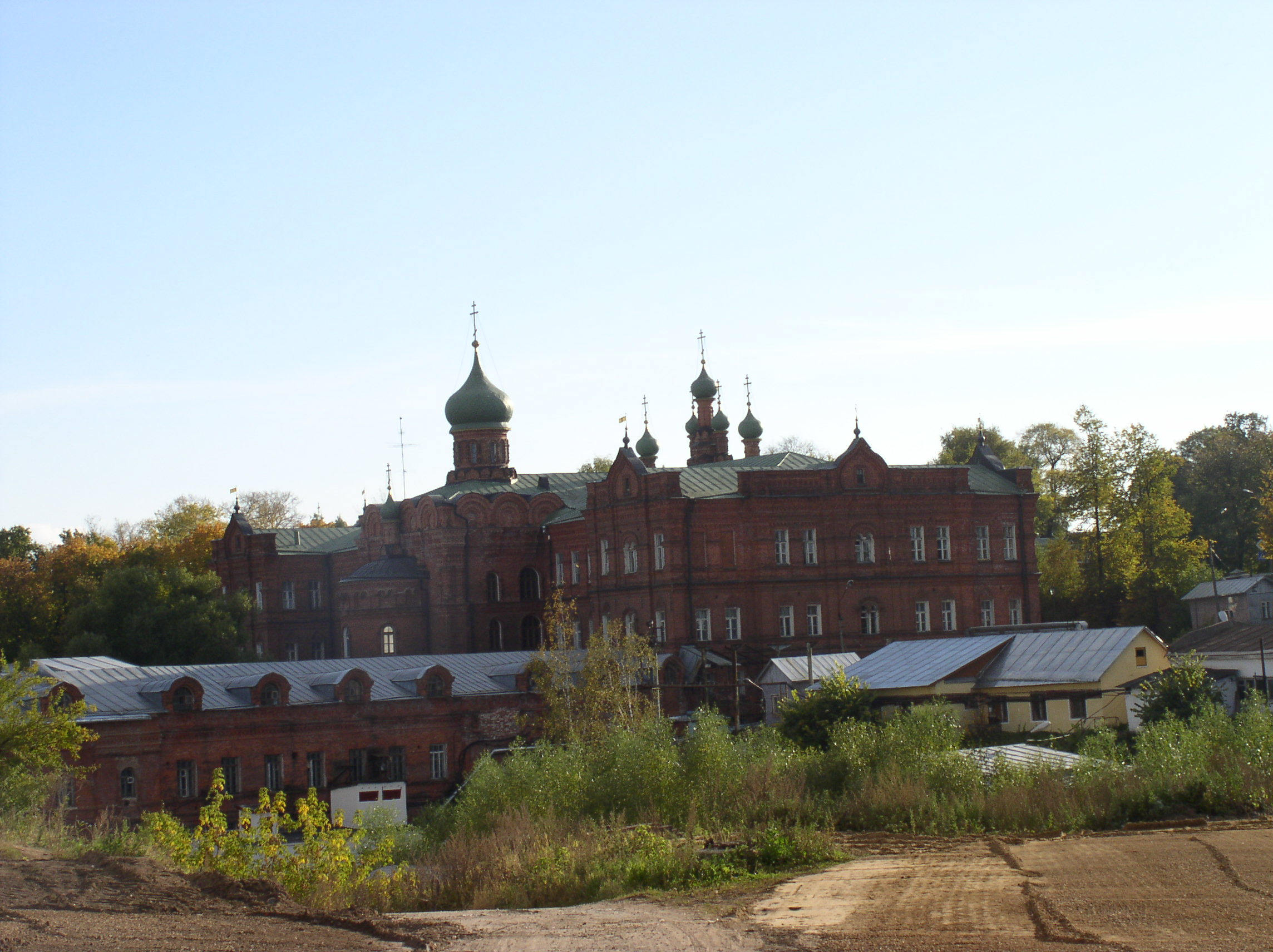 The Trinity-Sergiev Lavra, Sergiev Posad, Russia. The buildings of the former hospital, now used as the monastery's printshop (single-storey, on the left) and the Seminary (college) on the right.